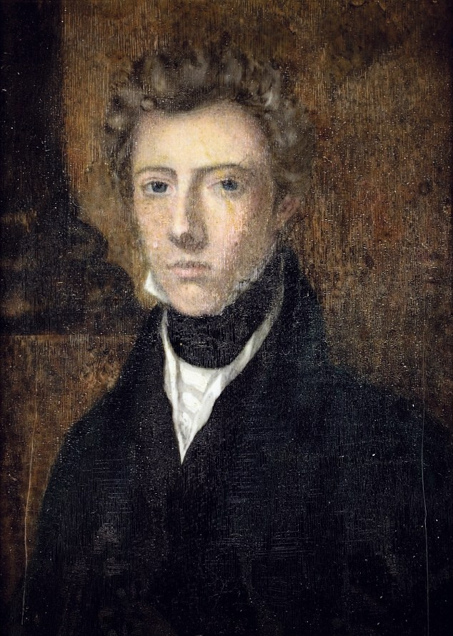 Dr James Barry (1789/1795-1865)